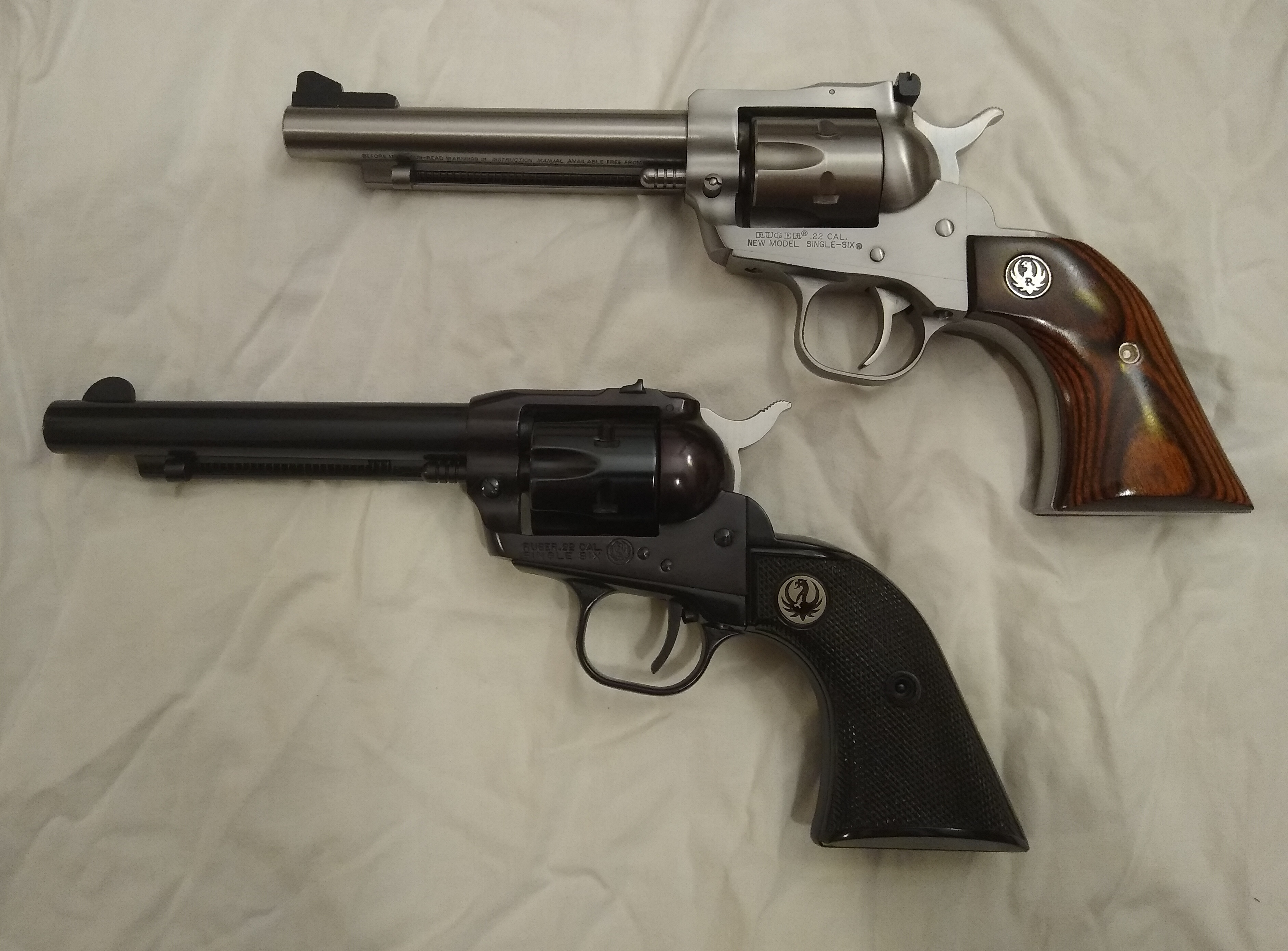 Ruger New Model Single-Six (stainless) on top and Ruger "Old Model" Single-Six (blued) on bottom. Both revolvers are chambered for .22 LR caliber.